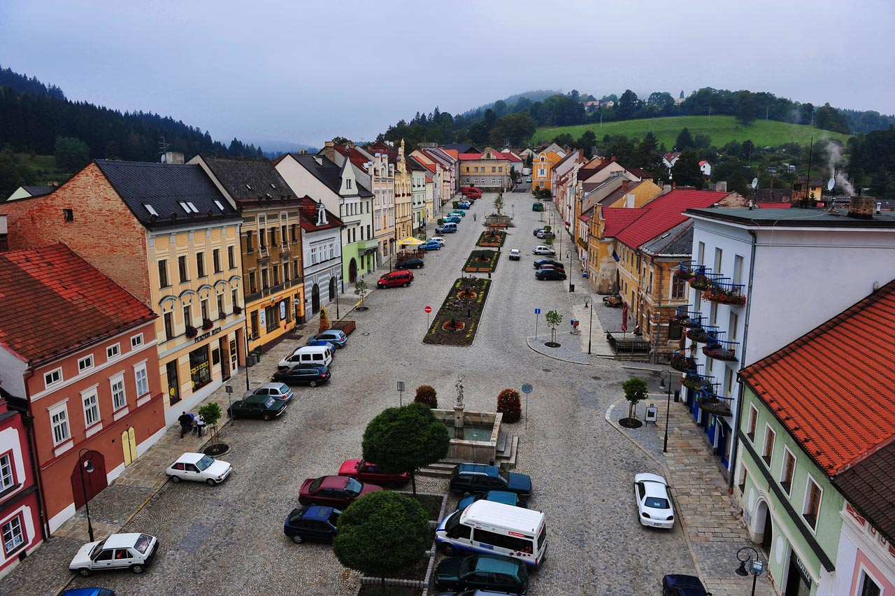 Square of Vimperk